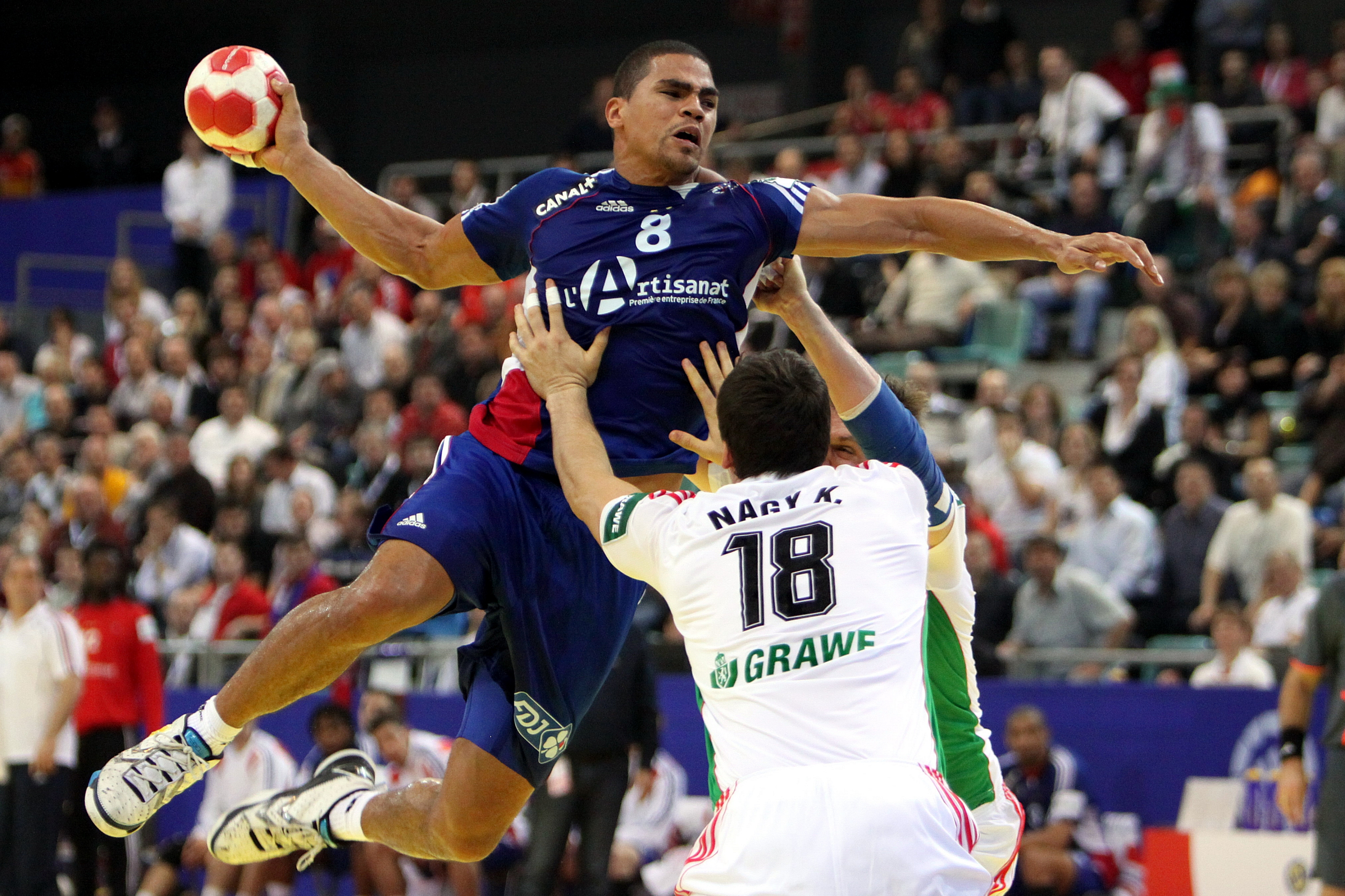 2010 European Men's Handball Championship Group D: France vs Hungary 29:29 — Daniel Narcisse (France national handball team) could not be stopped by Kornél Nagy and Balázs Laluska (Hungary national handball team)